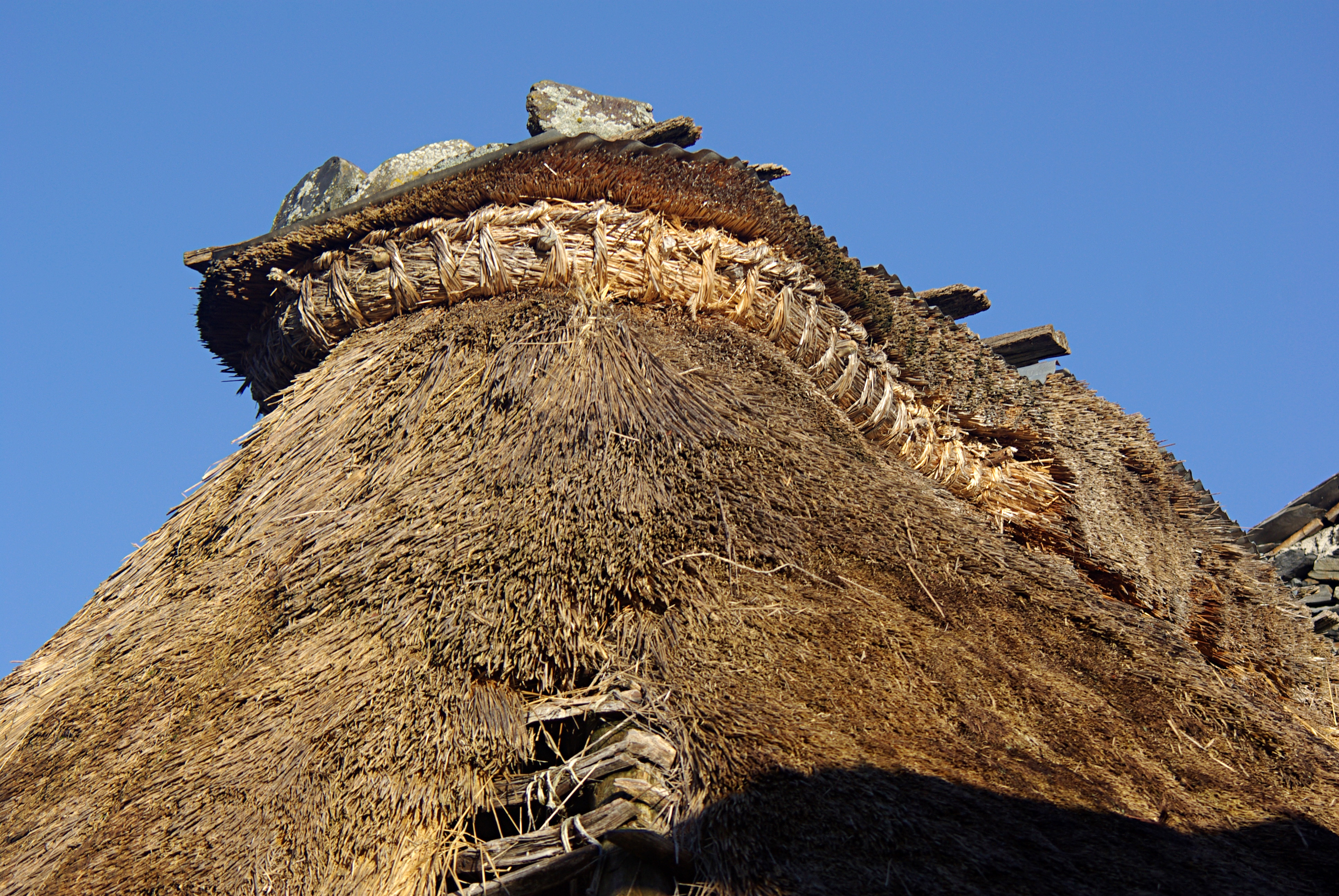 Detail of a thatched straw in Balouta, Candín (León, Spain)